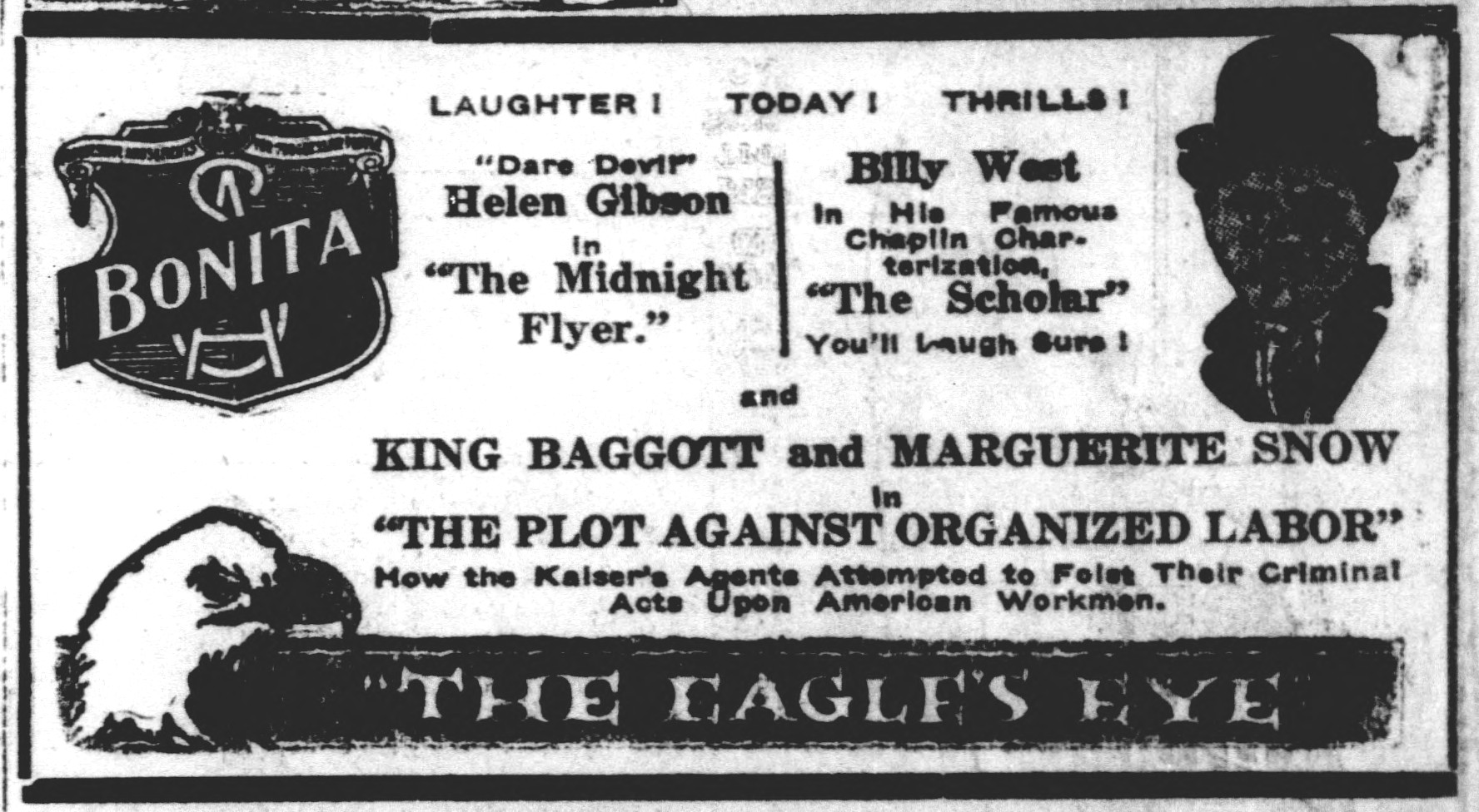 The Midnight Flyer is a 1918 American short action drama film directed by George Marshall and starring Hoot Gibson. This is an advert for that and other films.